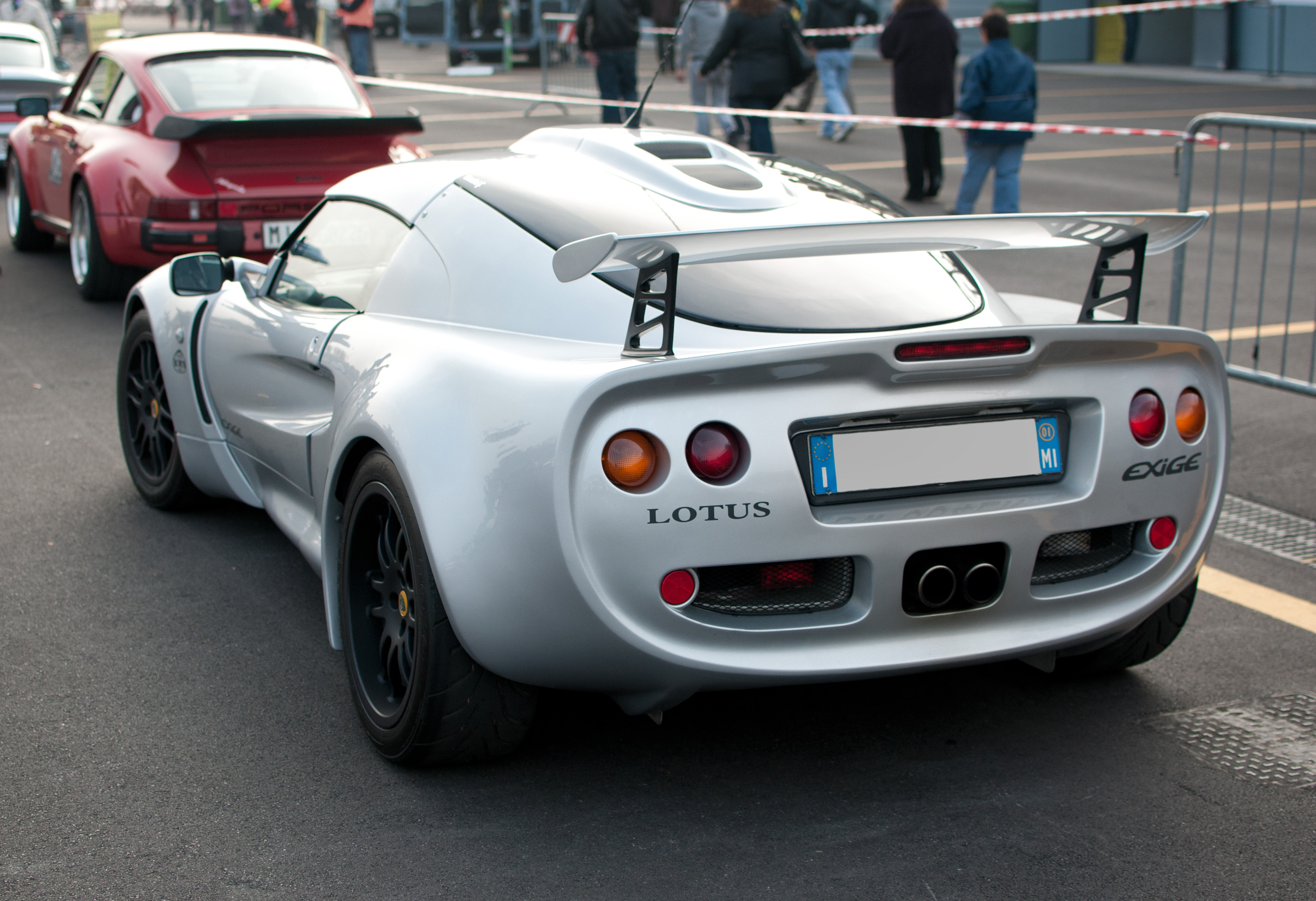 Lotus Exige S1 at Monza Circuit, Italy